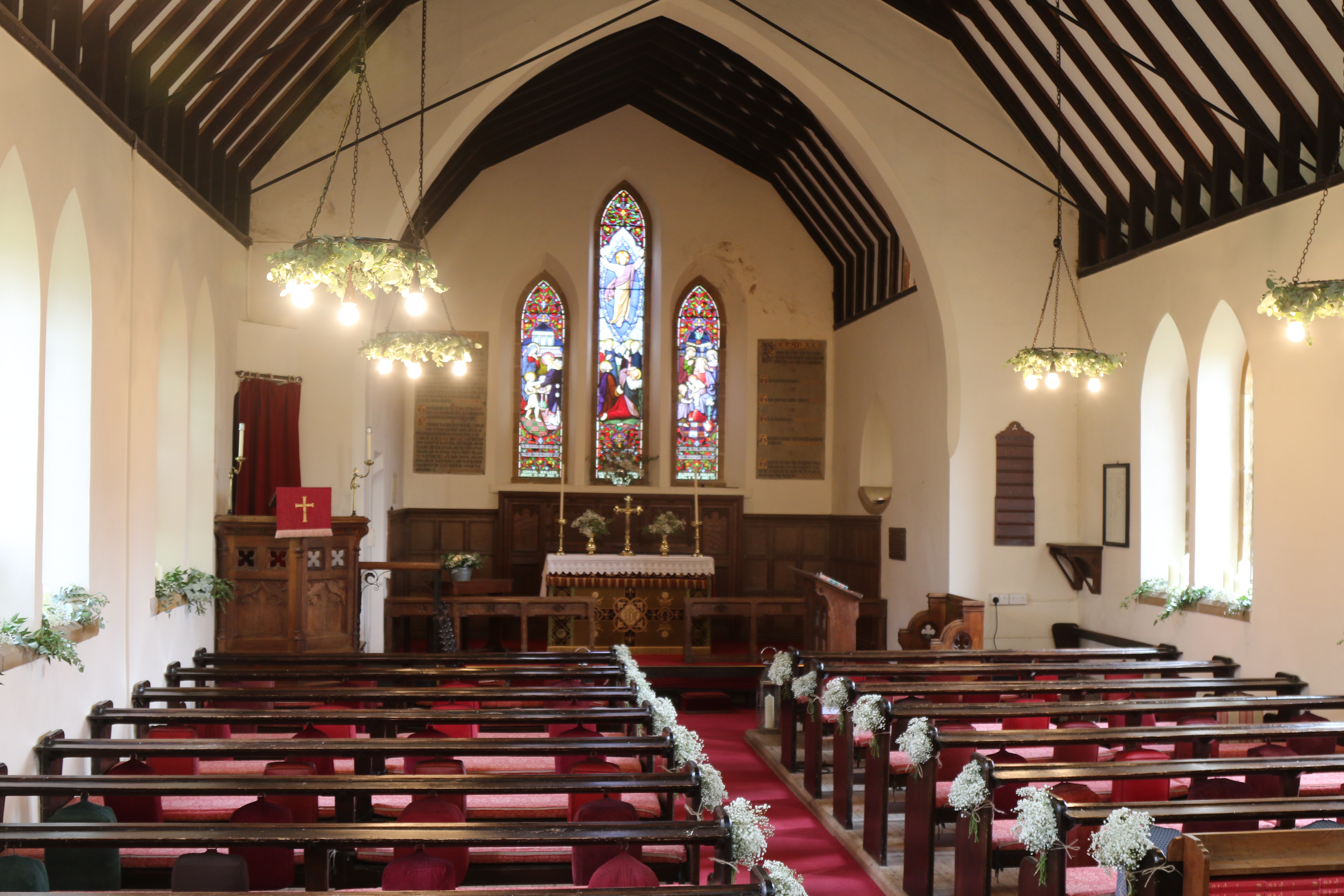 Decorated for a wedding.